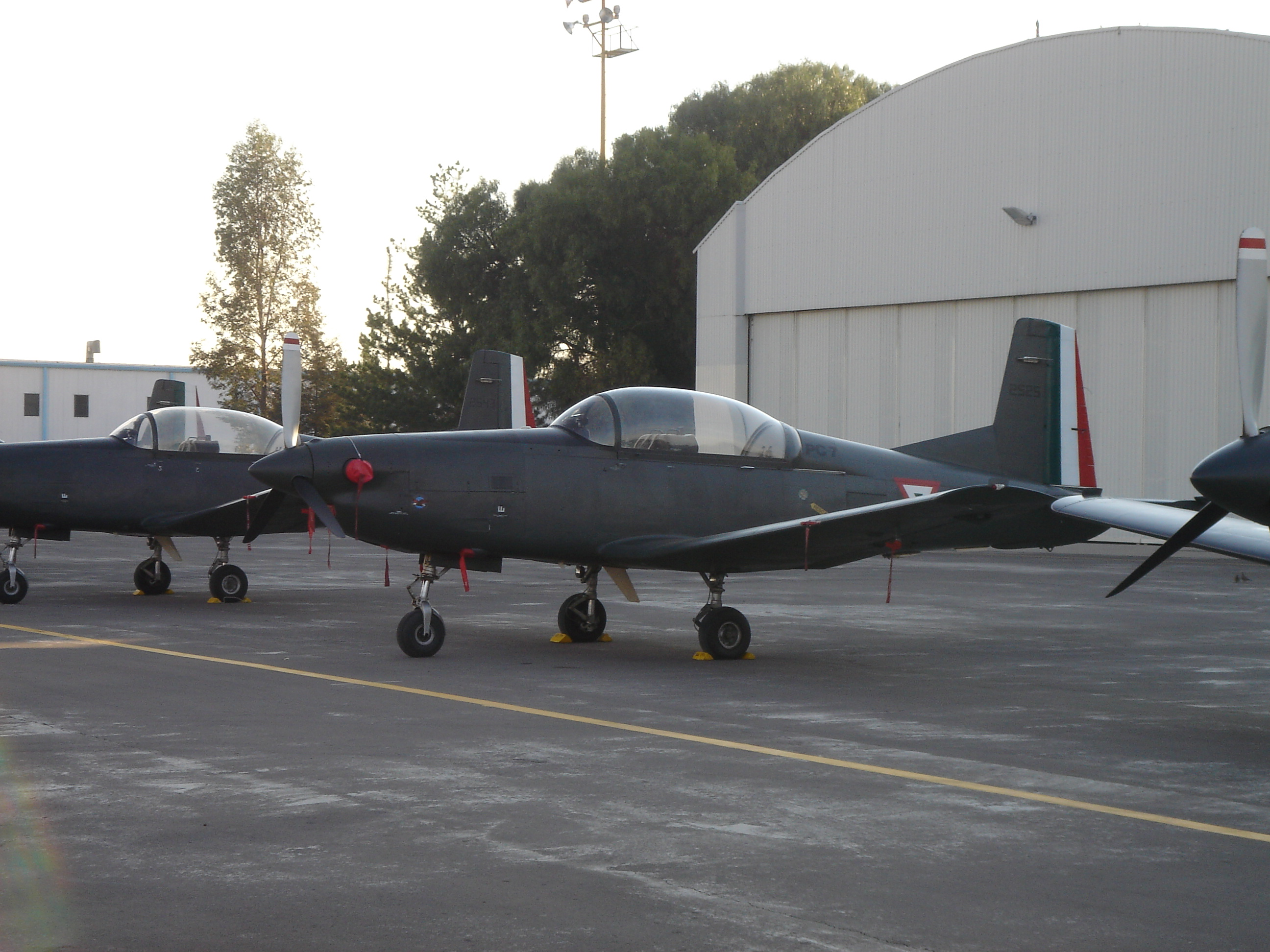 Pilatus PC-7 in Santa Lucia AFB